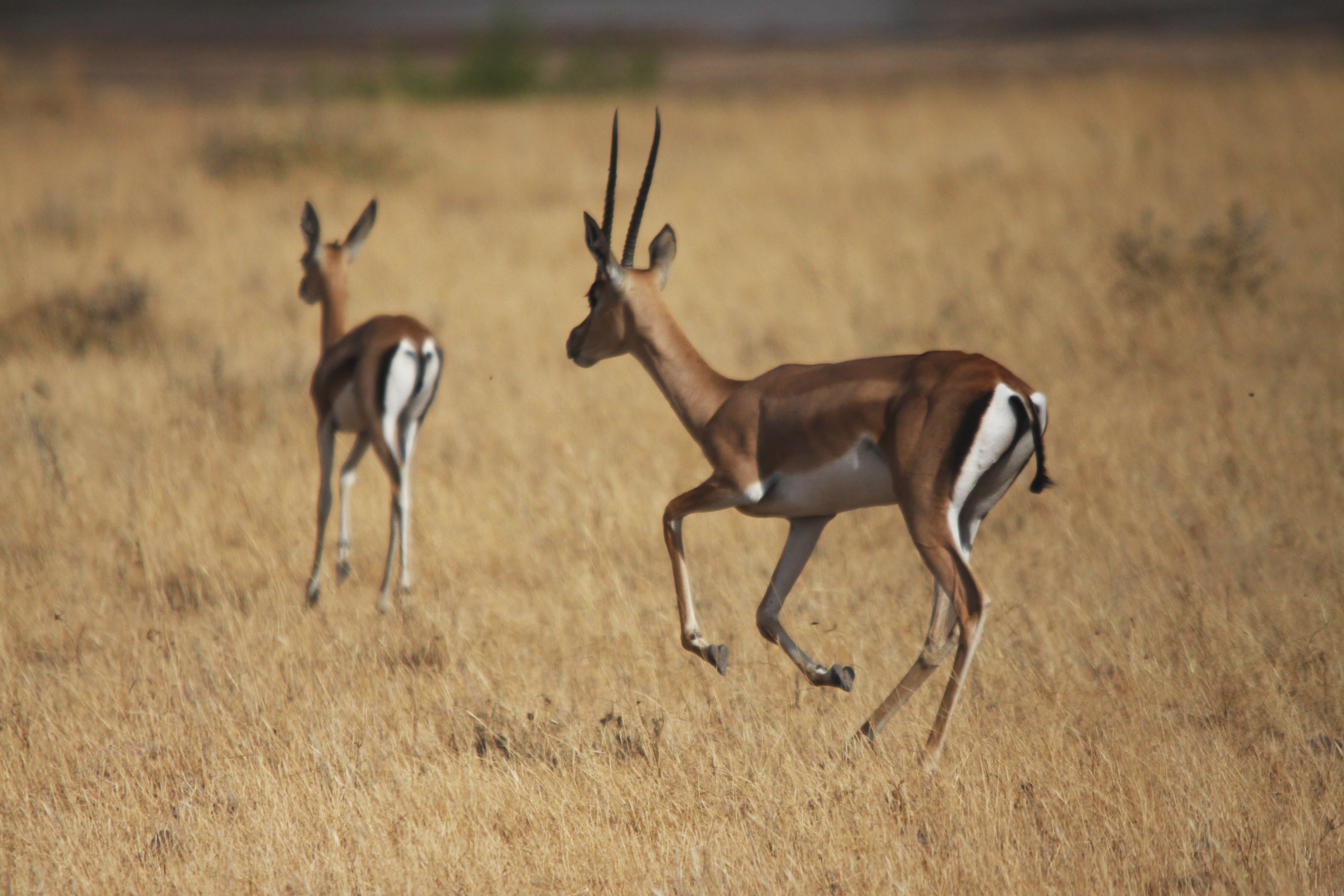 Grant's gazelles in Tsavo East, Kenya